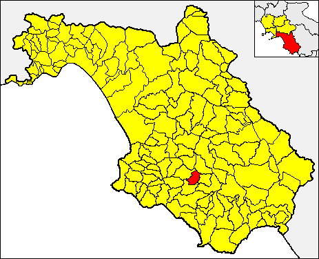 Locator map of the municipality of Moio della Civitella (red) within the Province of Salerno